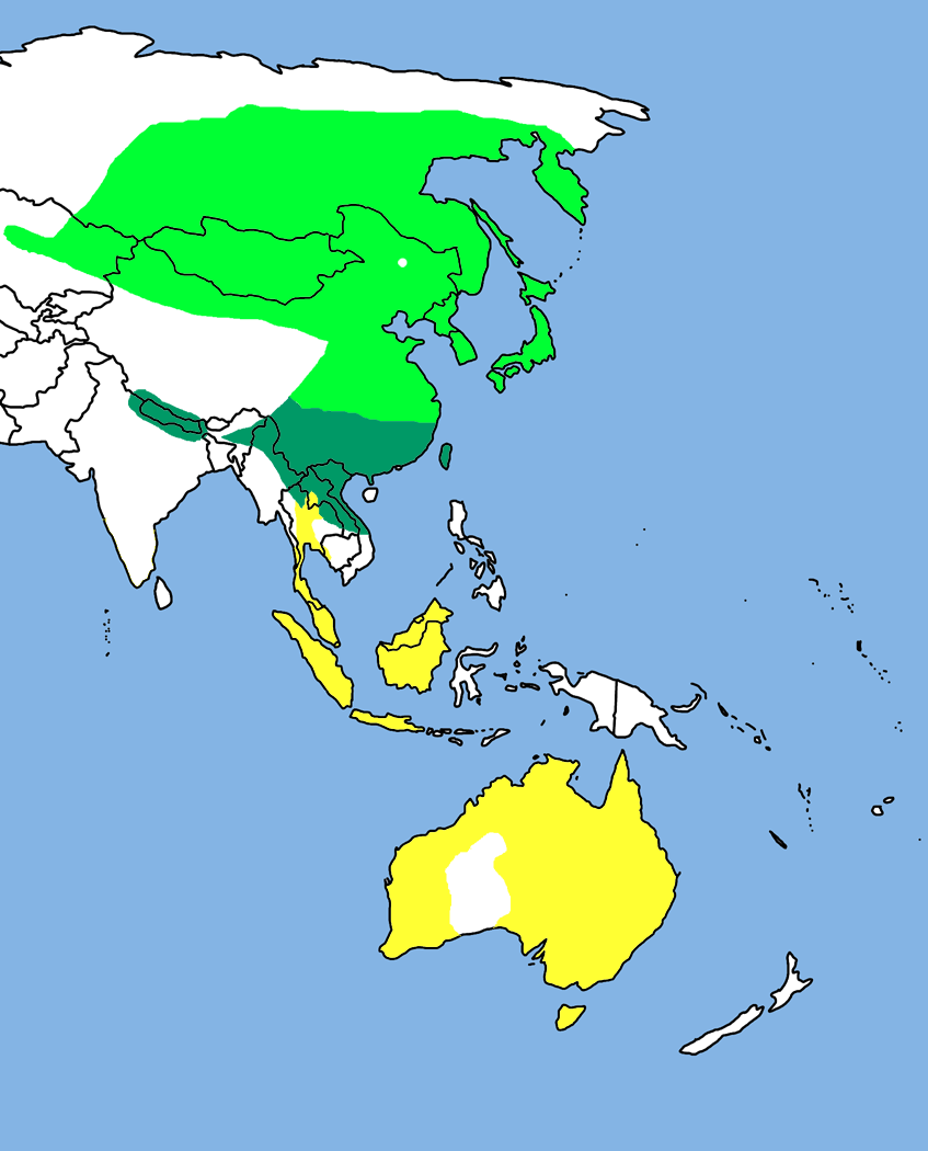 Distribution of Apus pacificus. Resident range: dark green; summering range: light green; wintering range: yellow. Data Source: Phil Chantler, Gerald Driessens: A Guide to the Swifts and Tree Swifts of the World; Pica Press; Mountfield 2000; ISBN 1-873403-83-6, modified accoridng to